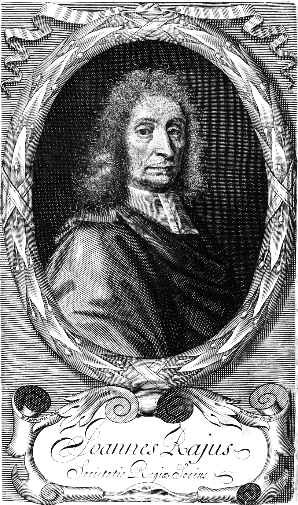 Woodcut frontispiece of John Ray, (Joannes Rajus)